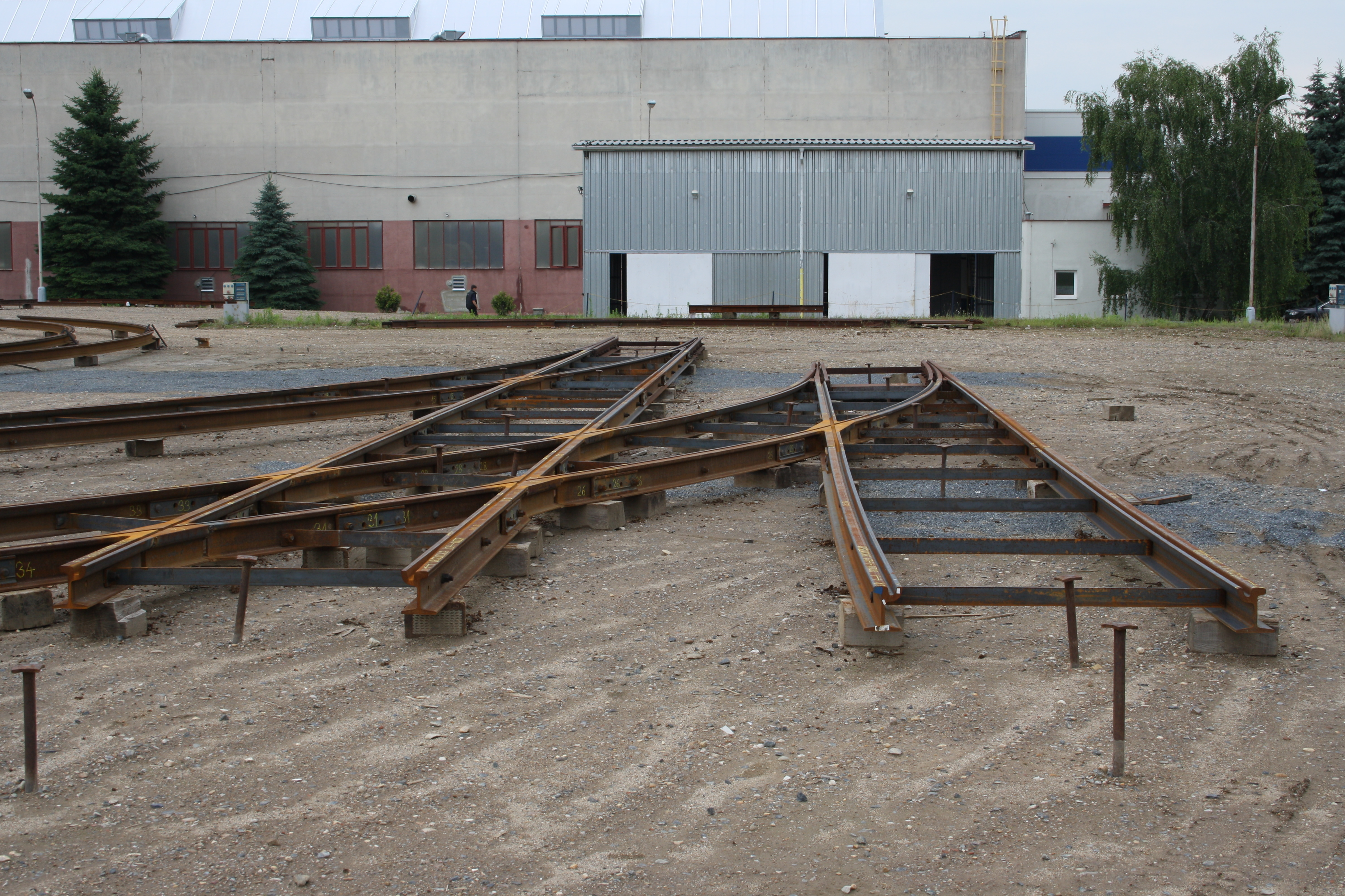 Prazska strojirna - outdoor assembly working place